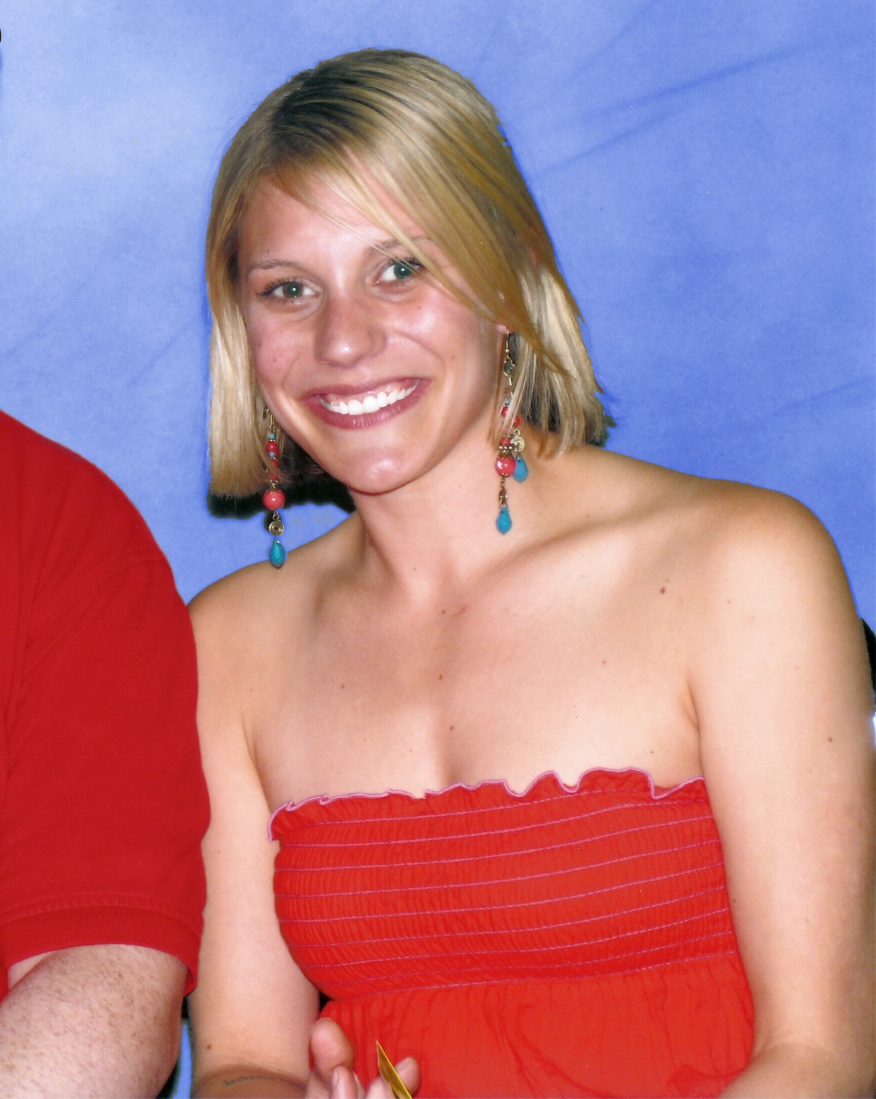 American actress Katee Sackhoff.